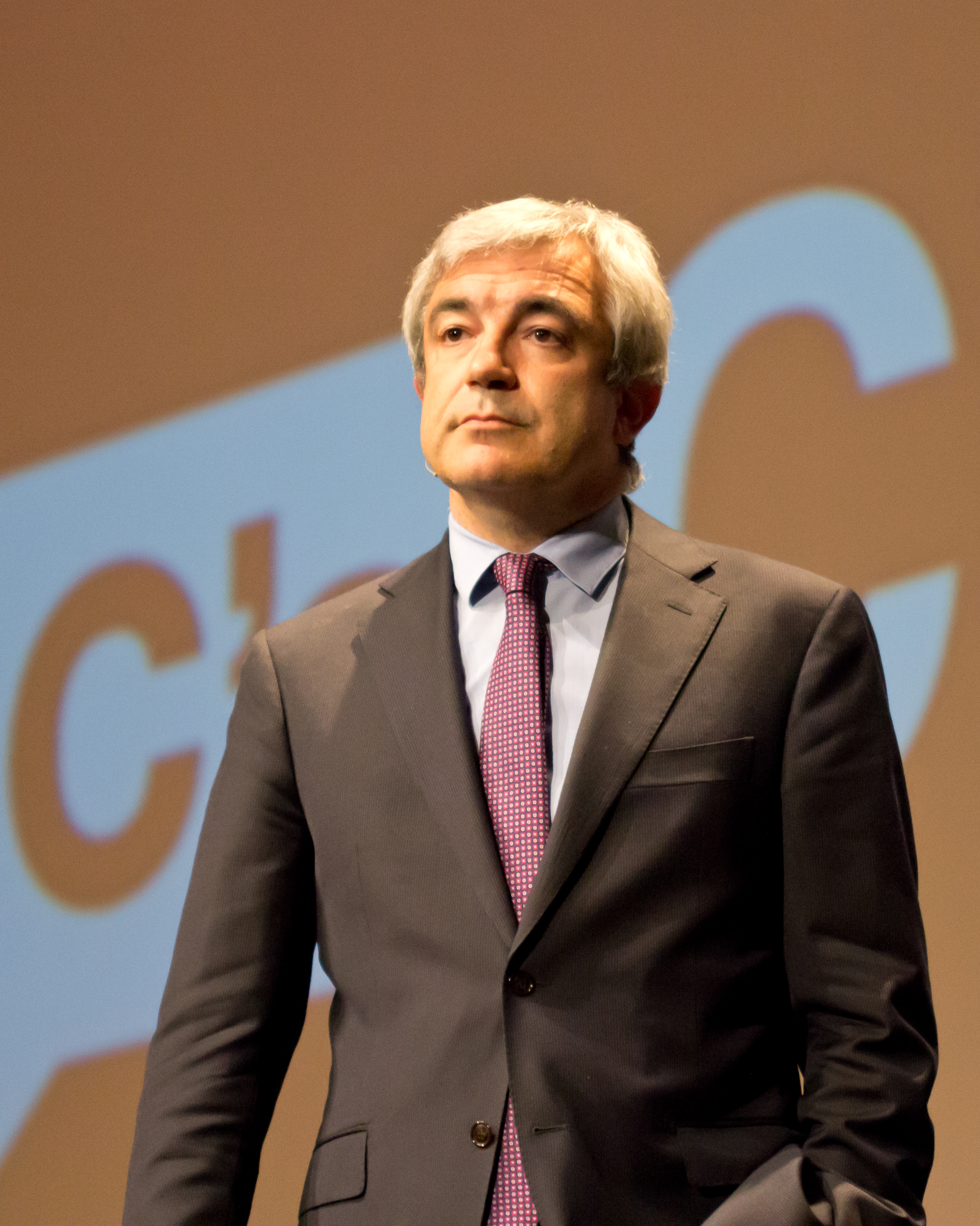 Spanish economist Luis Garicano at an event with Ciudadanos party.